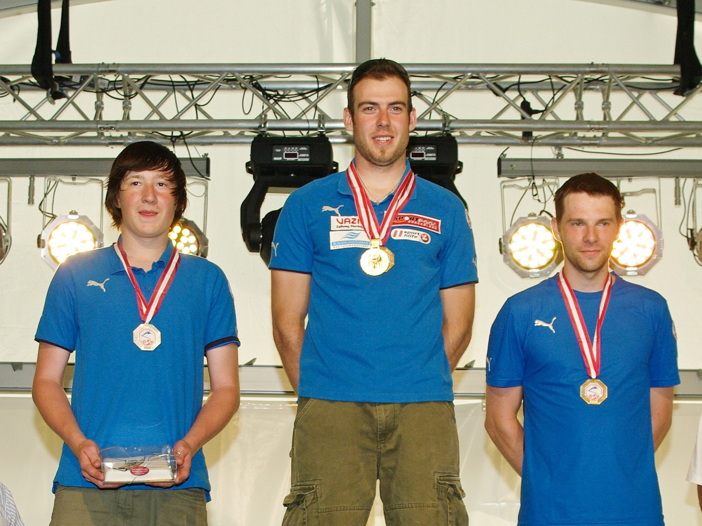 Austrian Grasski Championships 2010 in Rettenbach: Medal ceremony Mens Slalom: 1st place and Austrian Champion: Michael Stocker (middle), 2nd place: Hannes Angerer (left), 3rd place: Roland Zorzi (right)